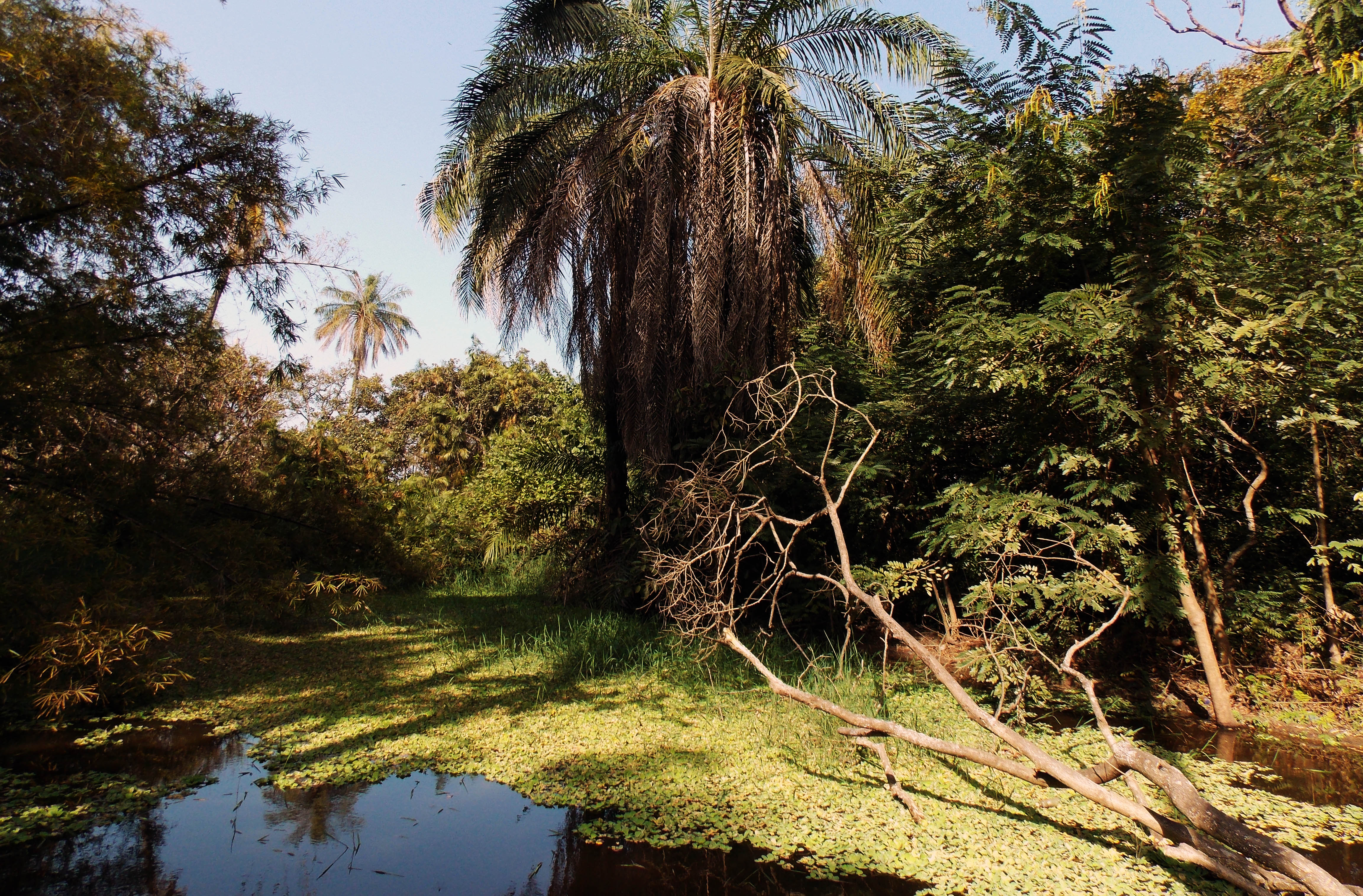 A picture showing the Reserve's lake, and example of local flora